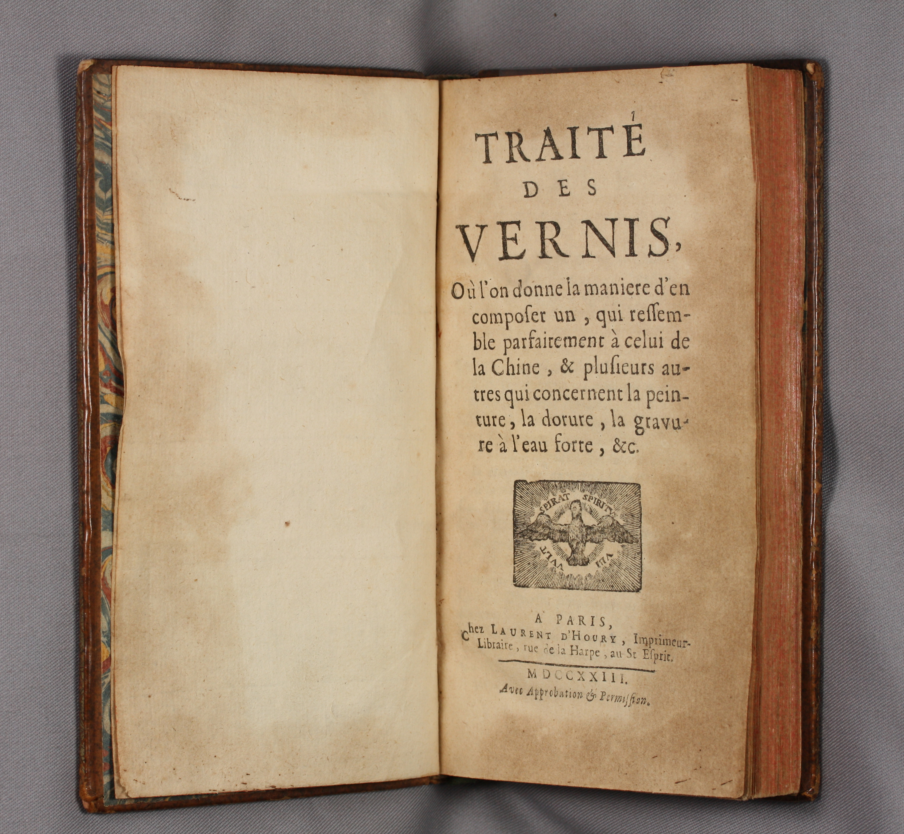 Title page of Traité des vernis, où, L'on donne la maniere d'en composer un qui ressemble parfaitement à celui de la Chine, & plusierus autres qui concernent la peinture, la dorure, la gravure à l'eau forte, &c. A Paris : Chez Laurent d'Houry ..., 1723. This is a French translation of Buonanni’s exhaustive research on the secrets of Chinese lacquer, first published in his Trattato sopra la vernice detta communemente cinese (1720).